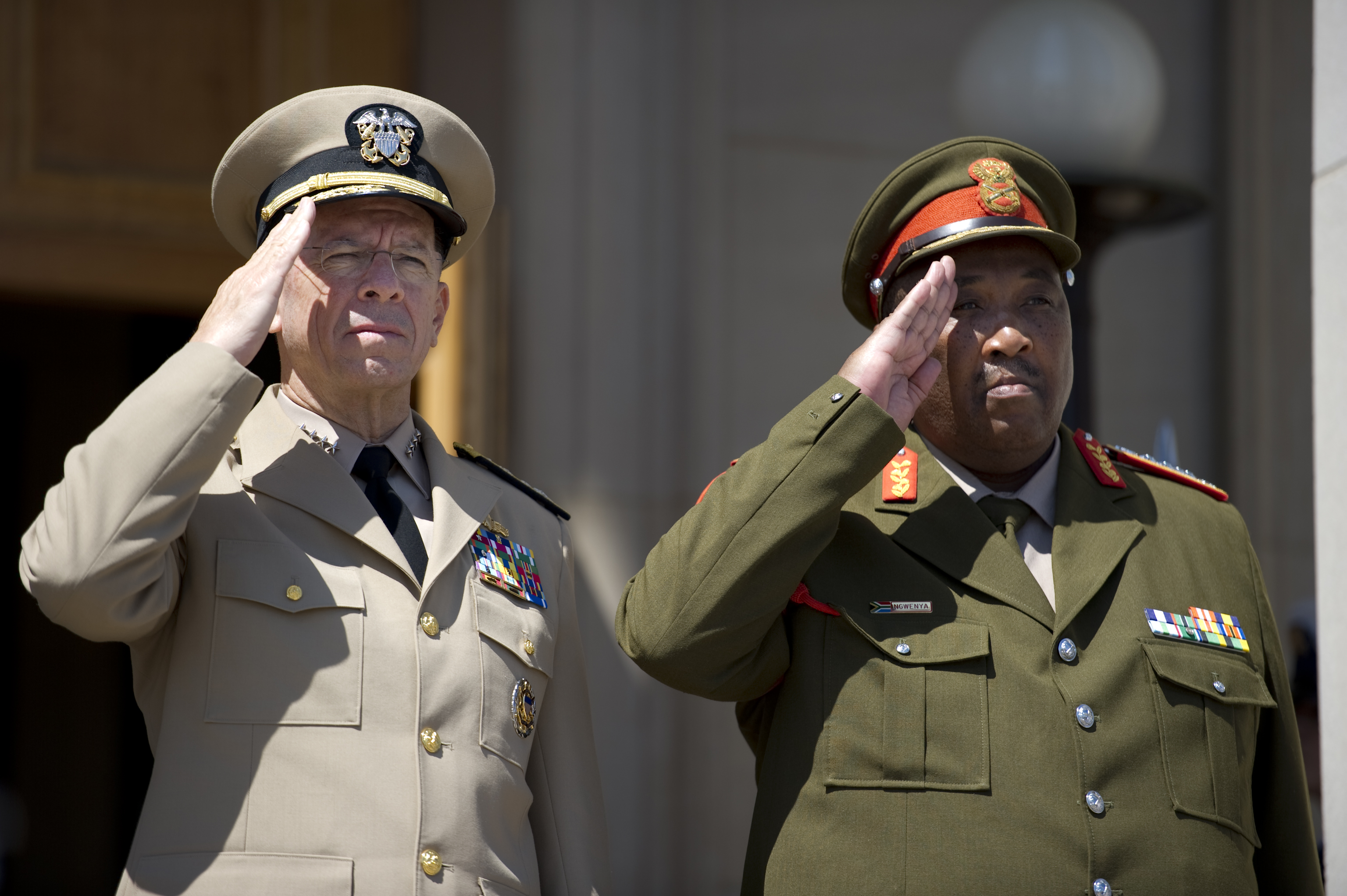 100520-N-0696M-045 Adm. Mike Mullen, chairman of the Joint Chiefs of Staff and Gen. Godfrey Nhlanhla Ngwenya, chief, South African National Defense Force render honors during the playing of their respective national anthems at the Pentagon on May 20, 2010. Mullen presented Ngwenya with the Legion of Merit for his leadership during a time of transition in the South African military and his countries support of vital NATO peacekeeping operations in Sudan, Burundi and Congo. (DoD photo by Mass Communication Specialist Chad J. McNeeley/Released)